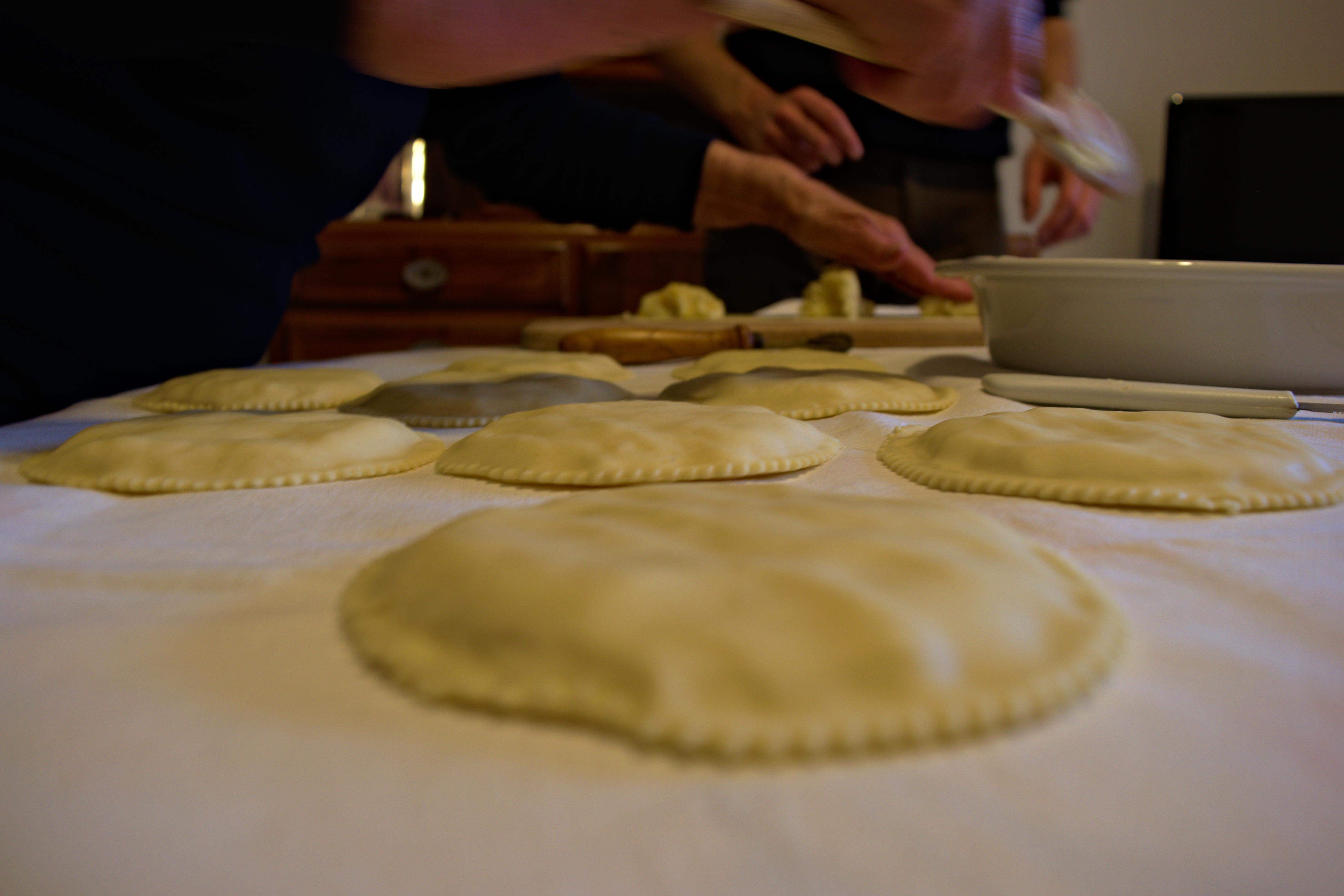 Making seadas at home.